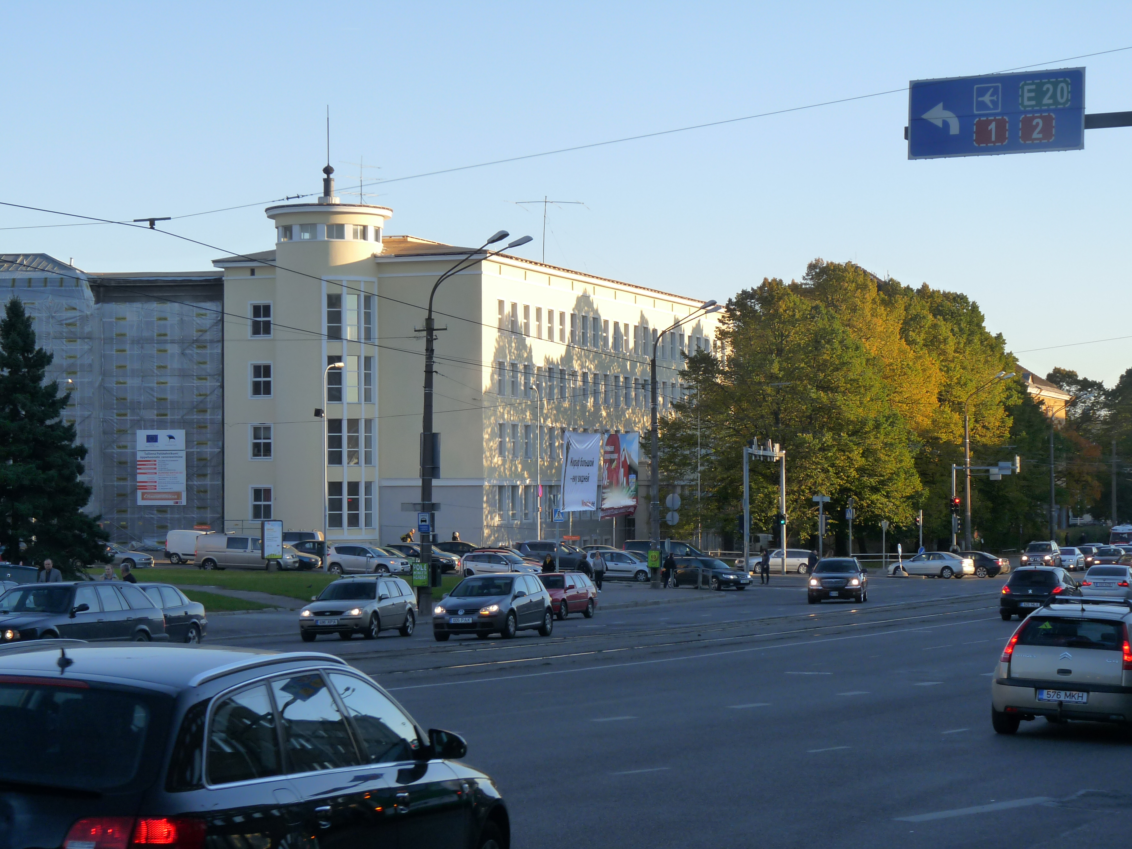 Tallinna Polütehnikum (Tallinn polytechnical college). Differs by high educational level, cause requirements to be accepted there is more stronger than gymnasium. Vocations: Electrician (up to 1000V), Lineman (up to 35000V), Automatician, Refrigerating machinery repairman, Heating and ventilation servicing tech, Computer electronics and microcontrollers servicing tech; Computer networks; Phototechnician